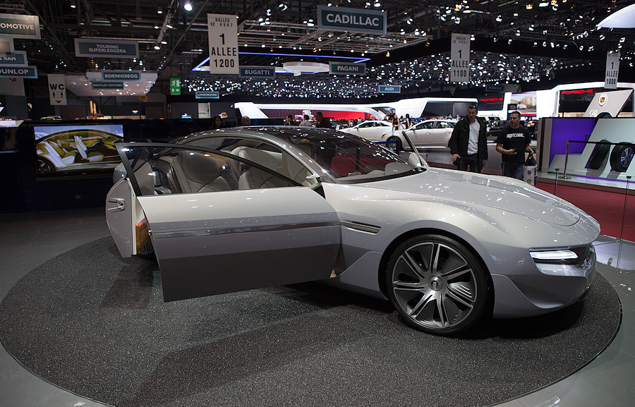 Motorshow Geneva 2012